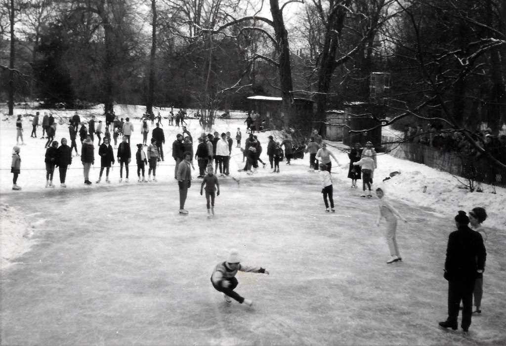 Figure skating training on a frozen channel in Frederiksberg Castle's Garden in Copenhagen, ca. 1958.